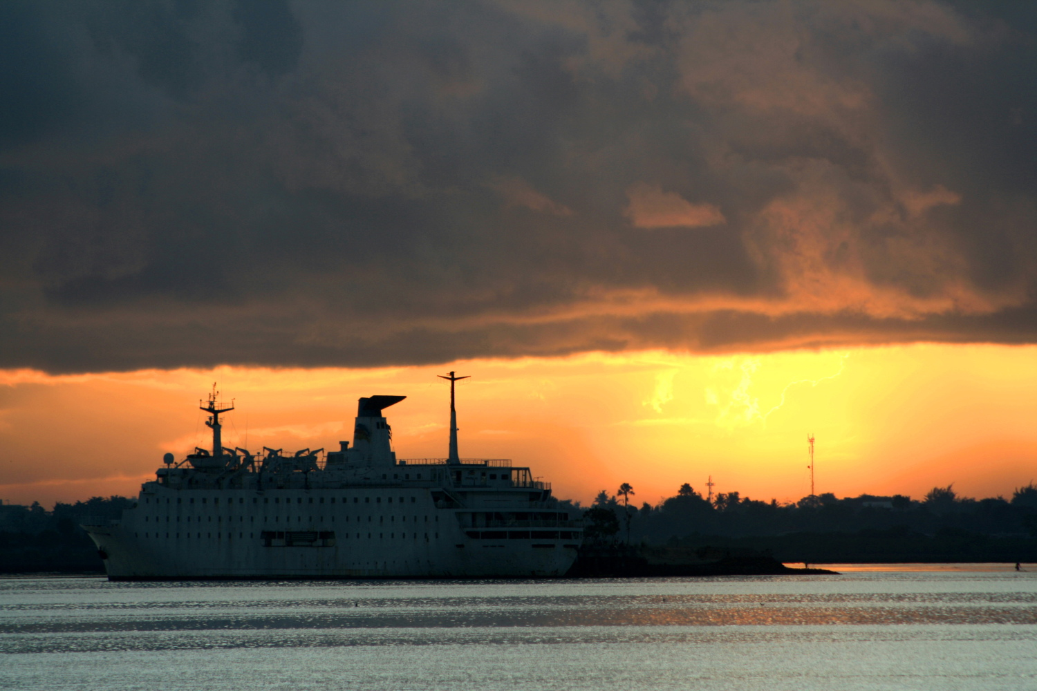 The Mabuhay Sunshine laid-up in Lapu-Lapu on october 2011.